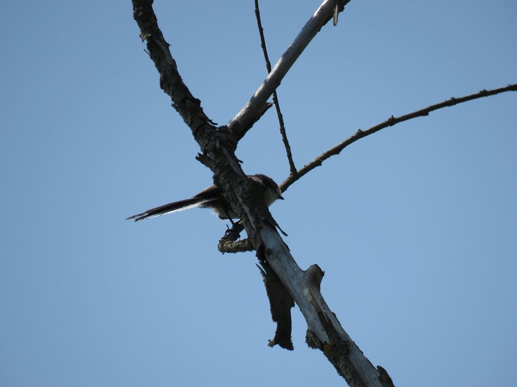 Long-tailed tit, Дугорепа сеница, Aegithalos caudatus